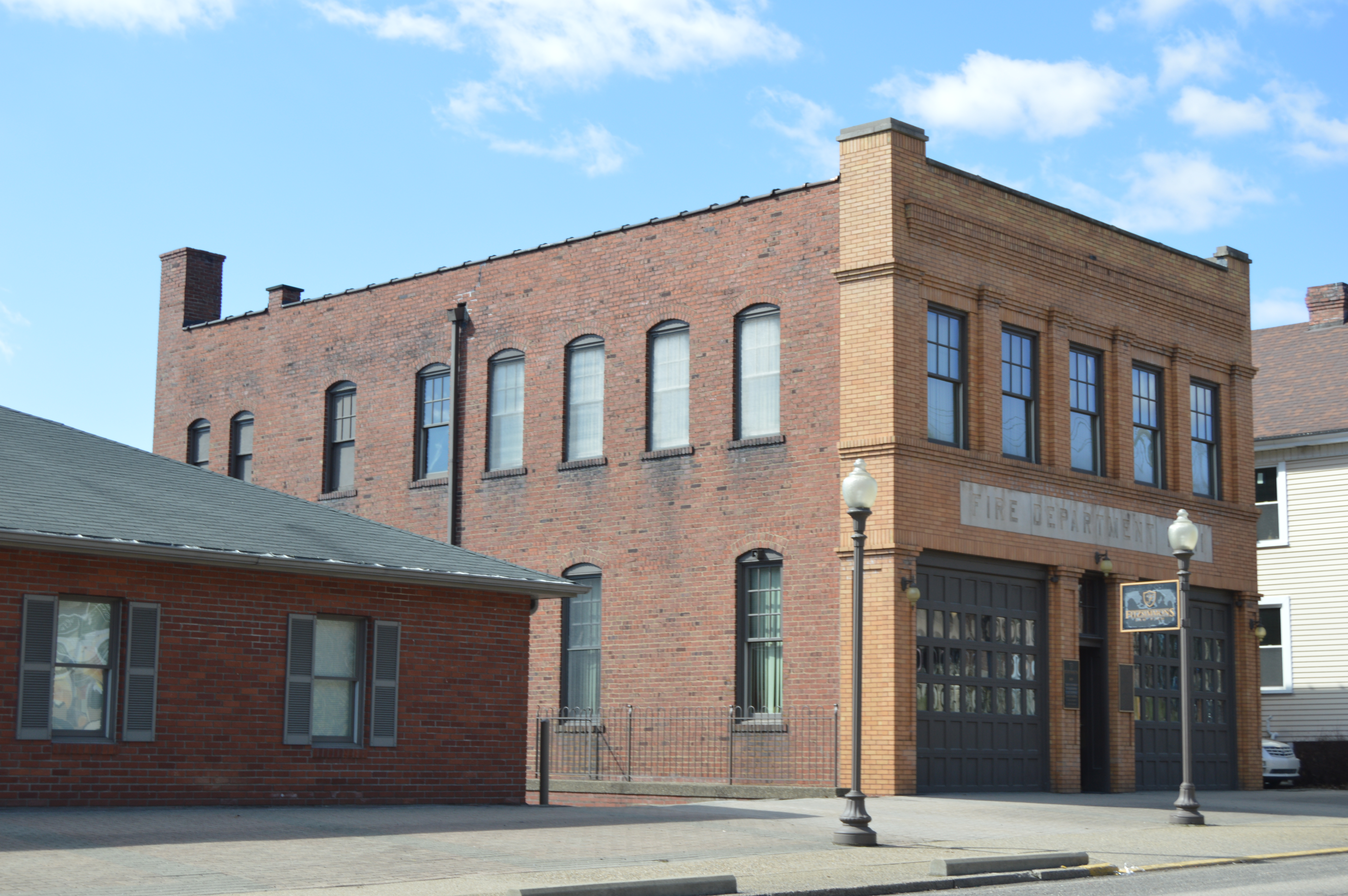 Southern side and front of the Warwood Fire Station, located at 1609 Warwood Avenue (West Virginia Route 2) in the Warwood neighborhood of Wheeling, West Virginia, United States. Built in 1923, it is listed on the National Register of Historic Places.